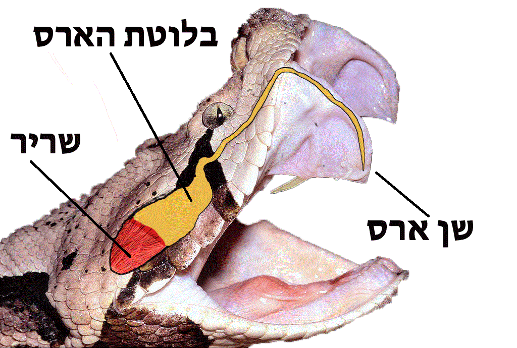 Bitis gabonica fangs & venom glands